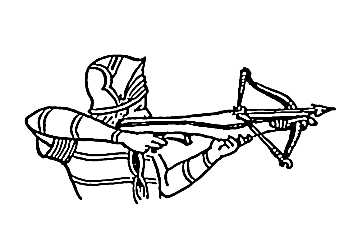 Line art drawing of a crossbow.